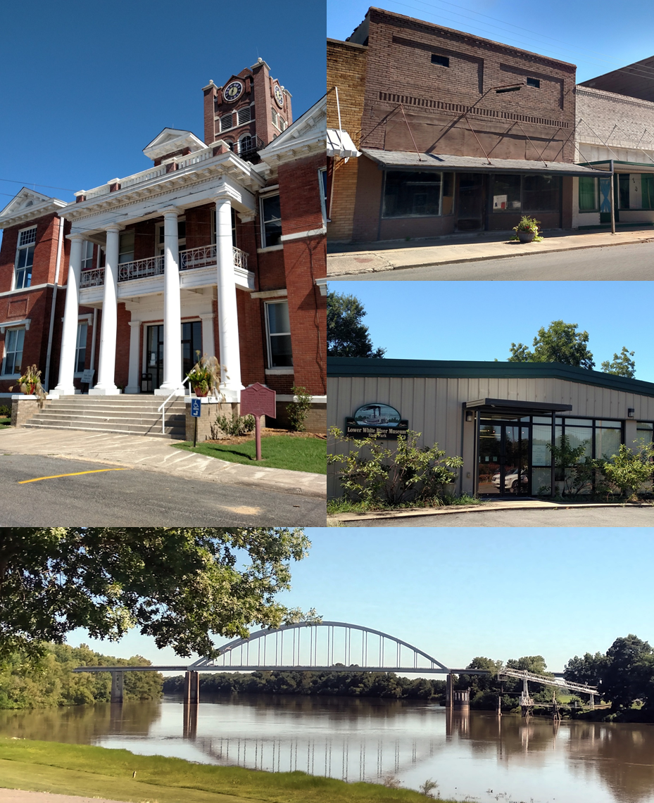 From top clockwise File:Des Arc, AR 001.jpg File:Des Arc, AR 019.jpg File:Des Arc, AR 007.jpg File:Des Arc, AR 010.jpg